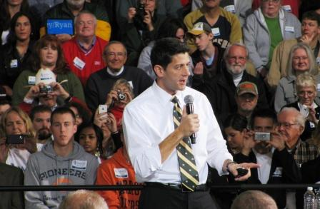 Paul Ryan points again as he makes a verbal point at Waukesha's Carroll University.